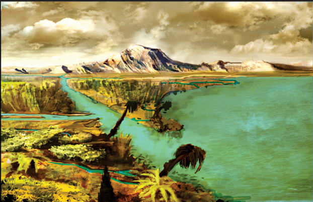 Paleoenvironment Lefipán Formation 2 - earliest Danian